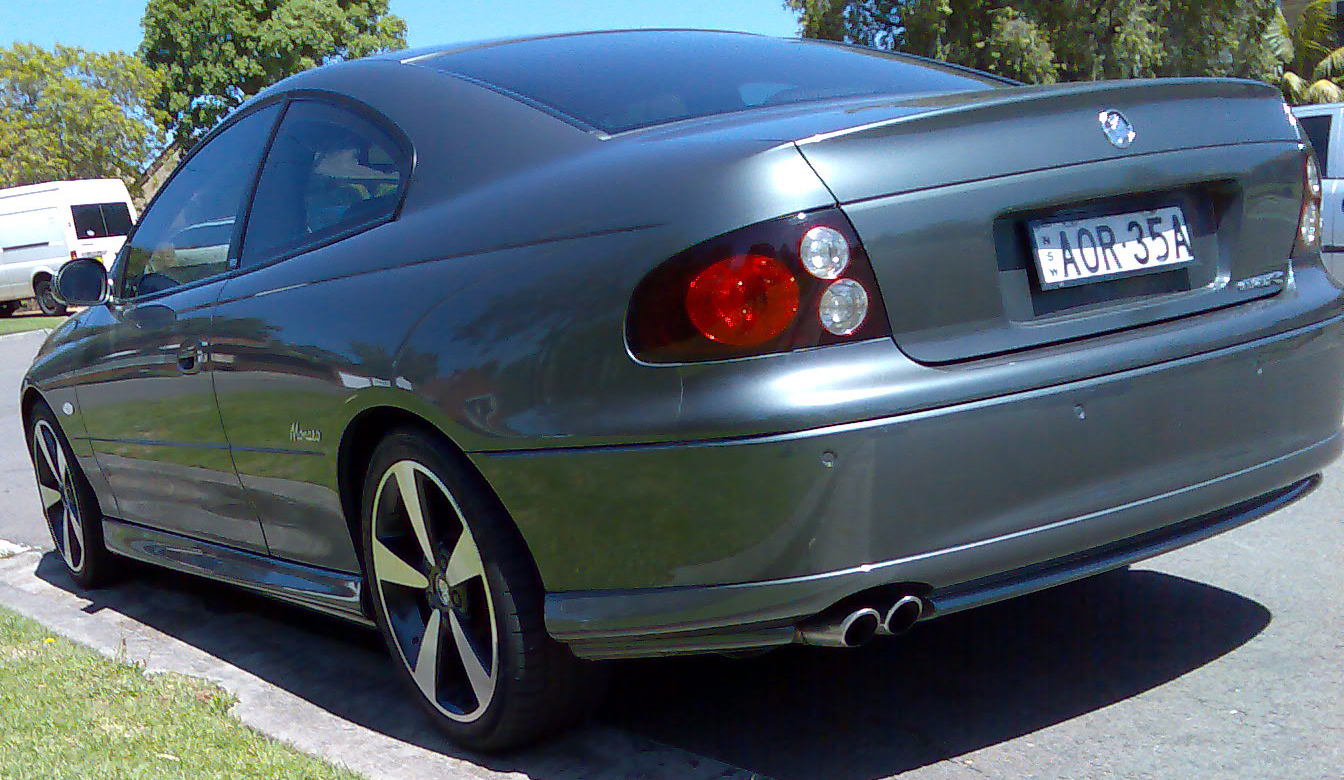 2003 Holden Monaro (V2 II) CV8-R coupe. Photographed in Miranda, New South Wales, Australia.